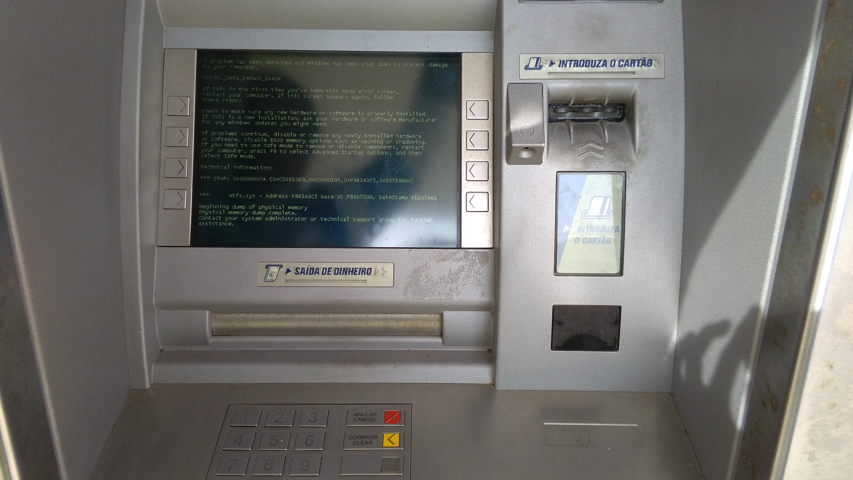 A BSOD in an ATM located in Portugal. ATMs use Windows XP Embedded.